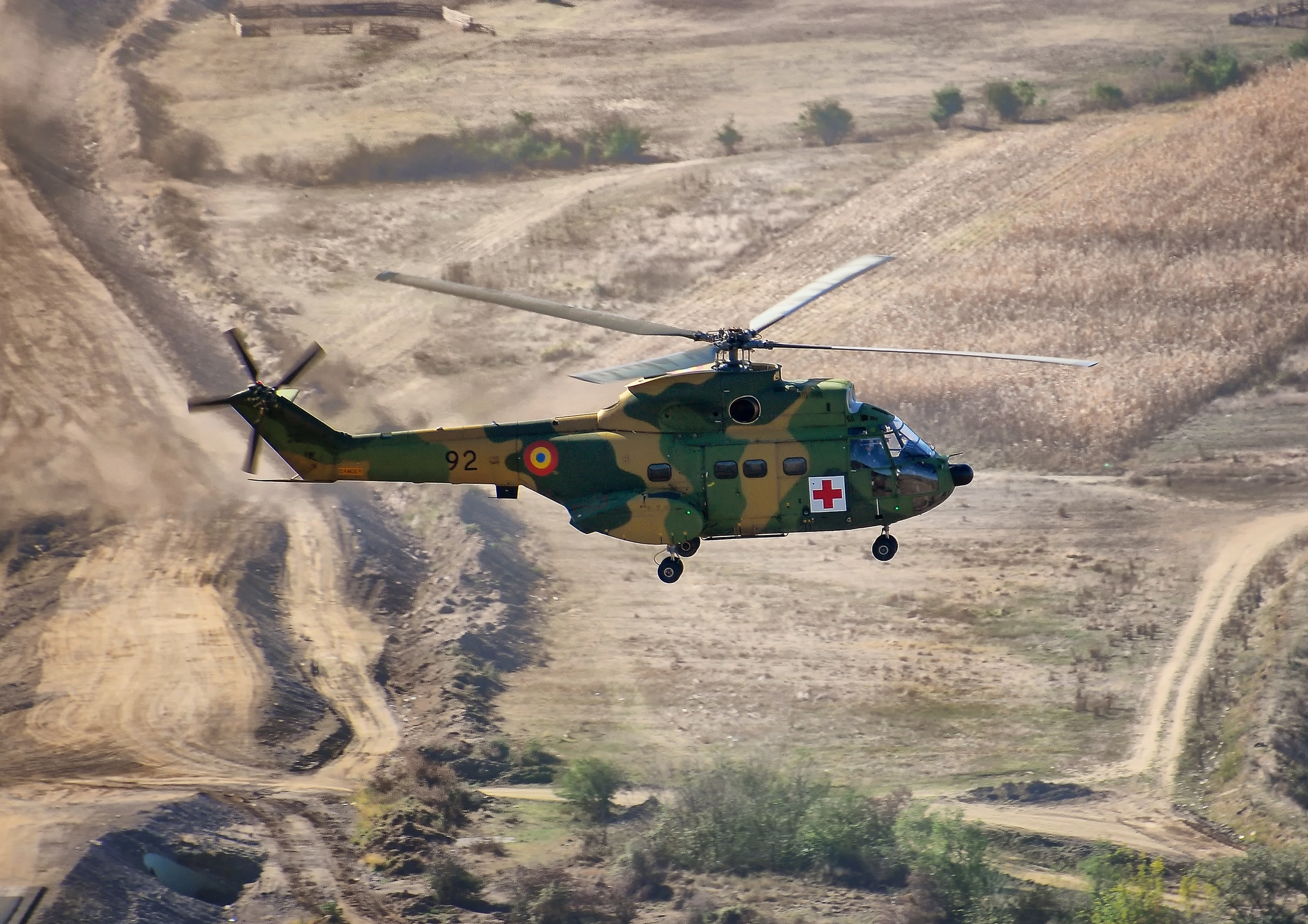 IAR 330 MEDEVAC in flight.